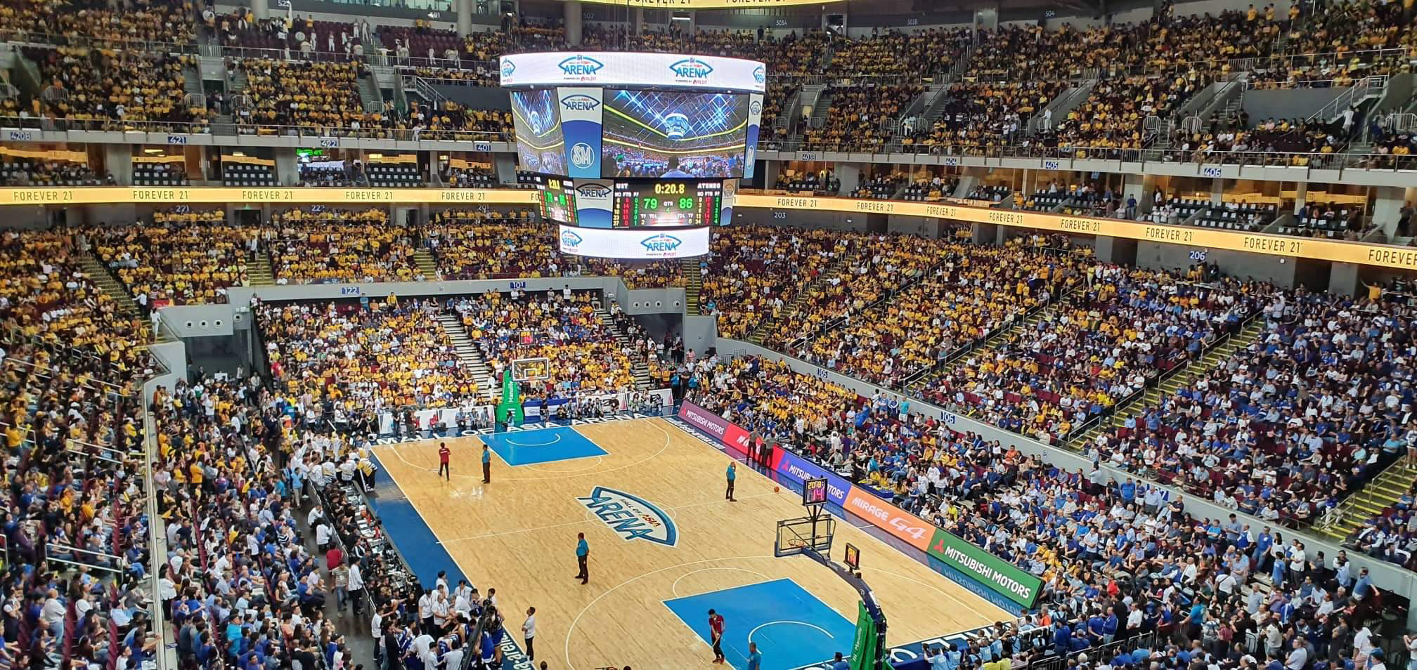 UAAP Season 82 Men's Basketball Finals Game 2 at the Mall of Asia Arena. Tagalog: Huling laro ng UAAP Season 82 Men's Basketball sa Mall of Asia Arena.